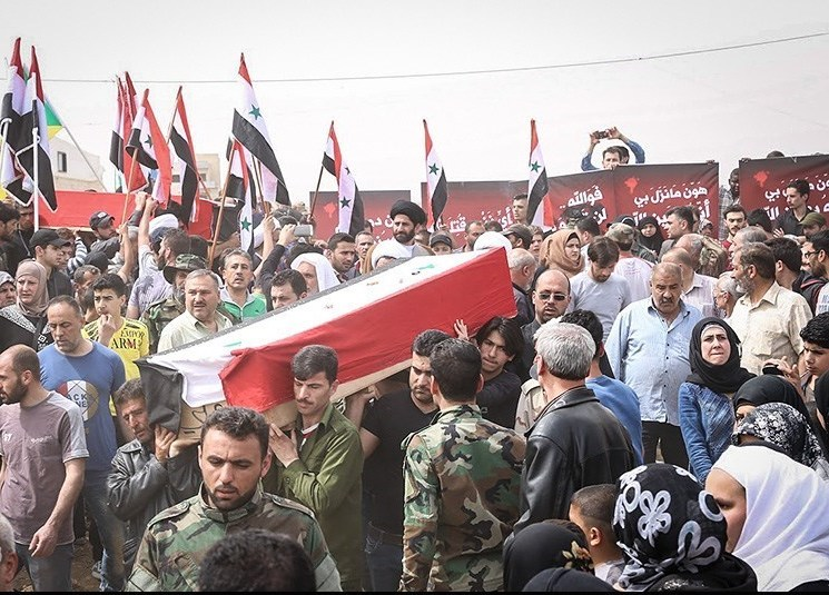 The funeral of the victims of Terrorist incident of 2017 Aleppo suicide car bombing which Targeted the People of two shia syrian towns Kafriya and Al-Fu'ah- Sayyidah Zaynab Mosque